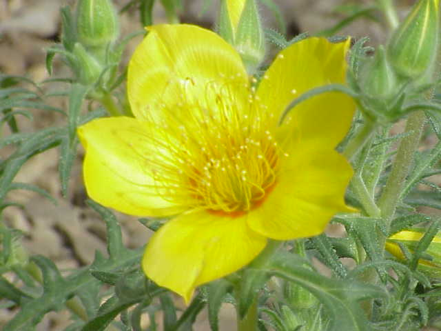 Species: Mentzelia lindleyi Family: Loasaceae Image No. 1